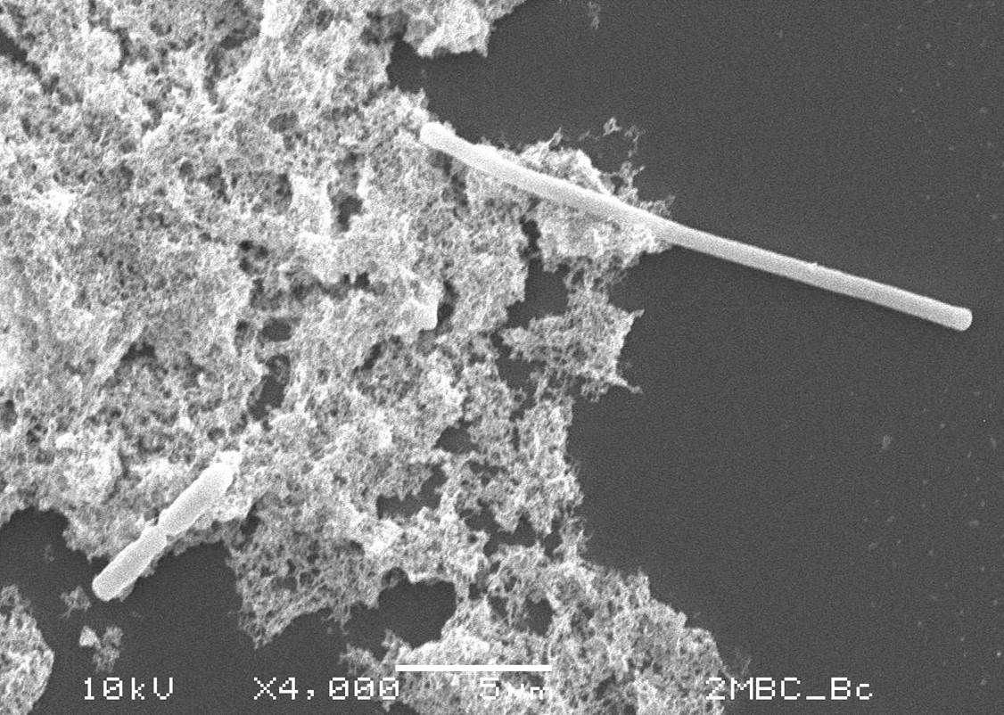 A Bacillus cereus cell that has undergone filamentation following antibacterial treatment